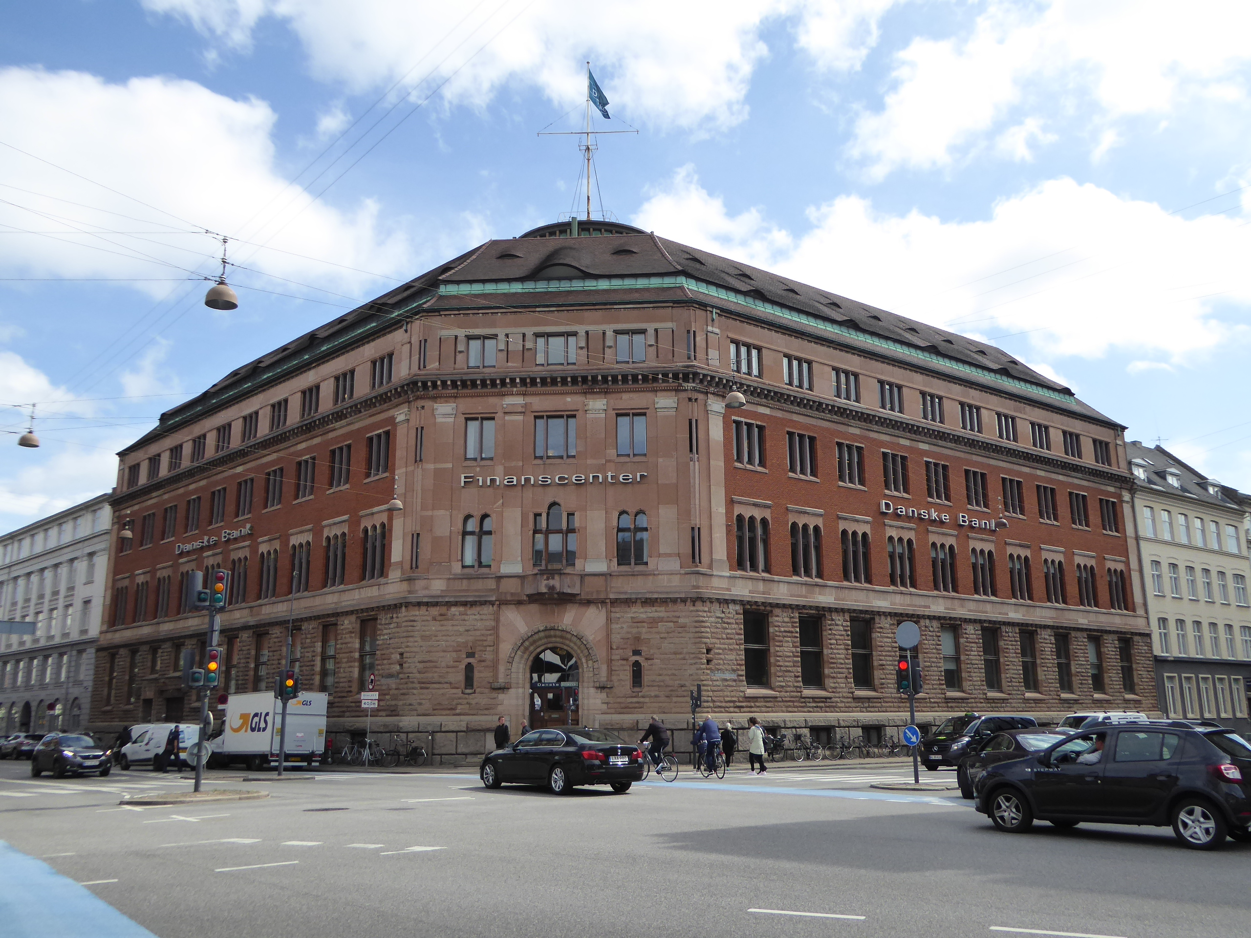 Finanscenter København, a part of Danske Bank, at the corner of Holbergsgade, Holmens Kanal and Niels Juels Gade in Indre By in Copenhagen.